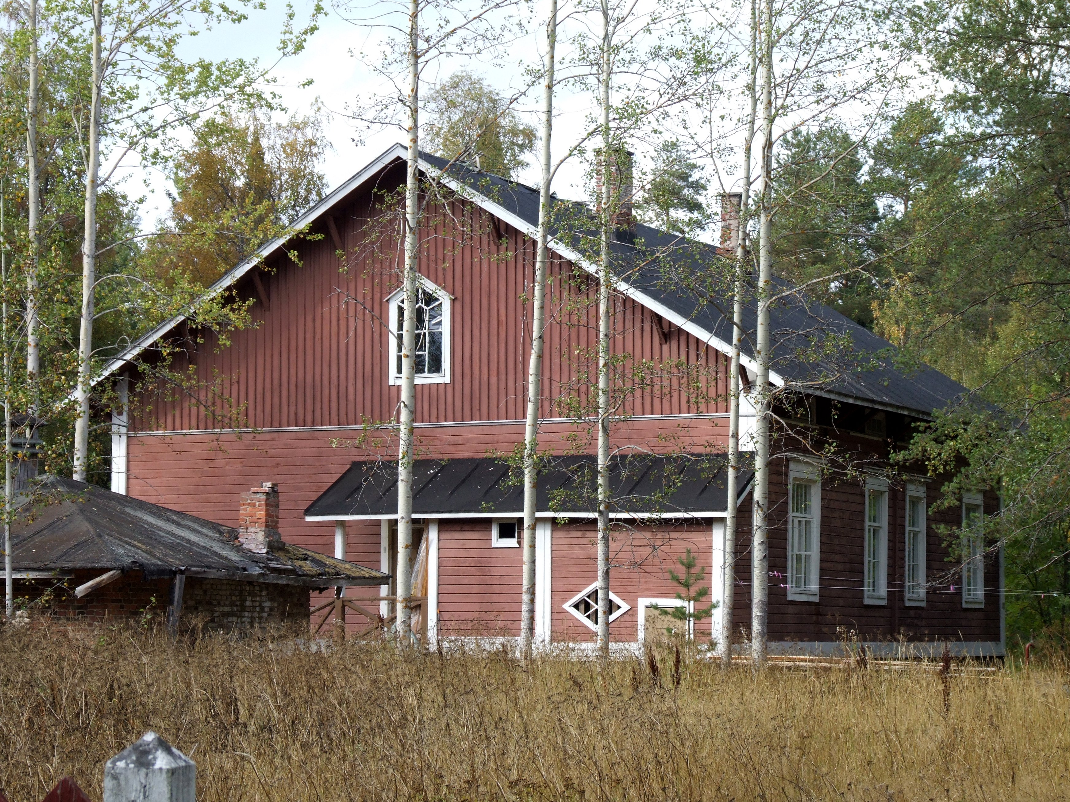 A barrack of Maikkula Reserves Company in Oulu. The barracks were built in 1880s.